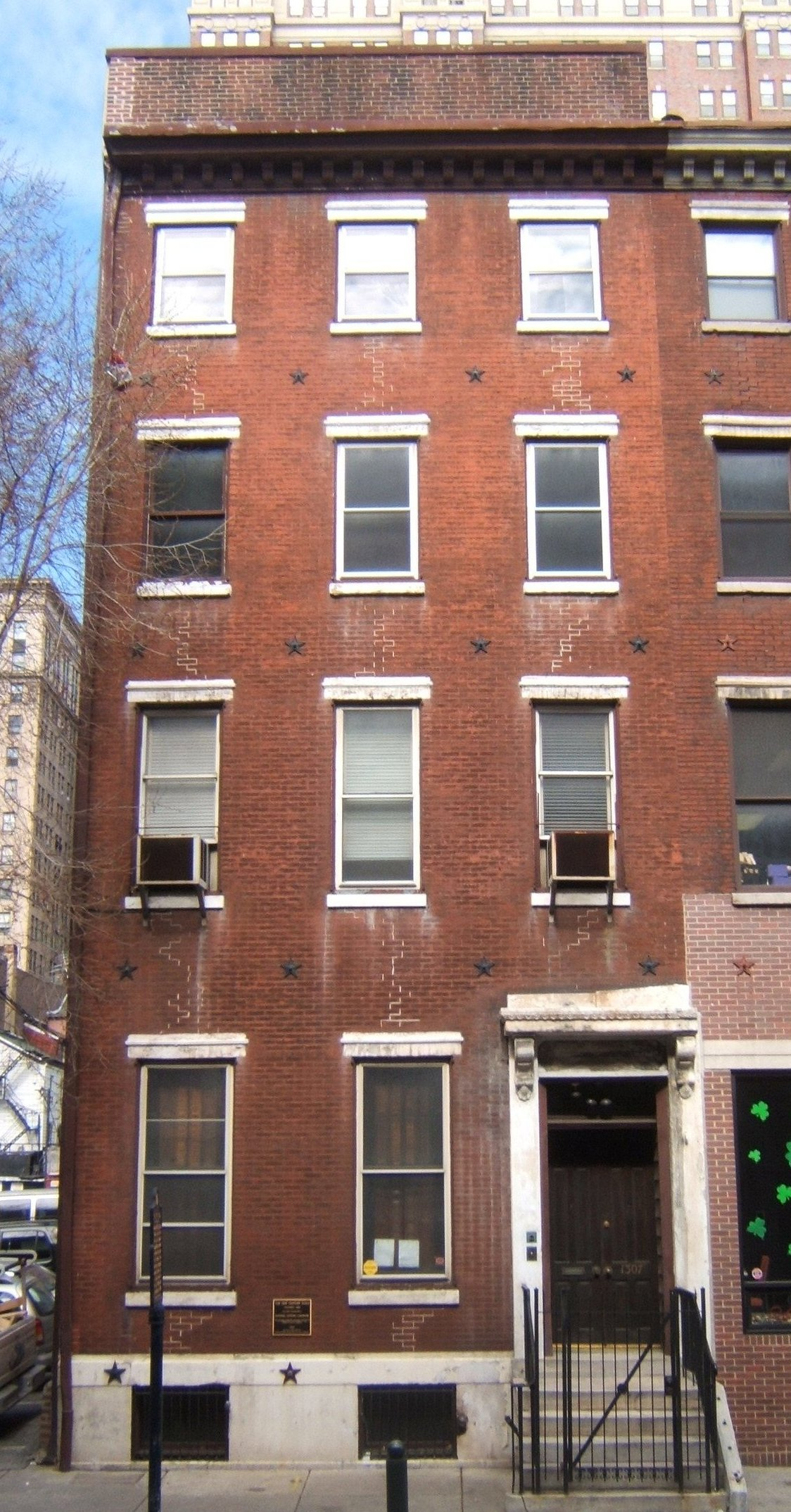 New Century Guild, founded 1882, here in 1906 at 1307 Locust Street, Philadelphia, PA, to advance the interests of working women